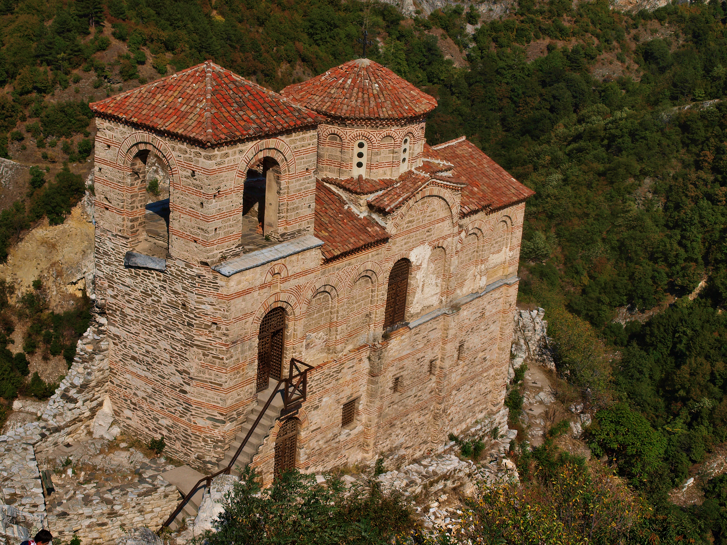 Church of the Holy Mother of God in Asen's Fortress, Asenovgrad, Bulgaria